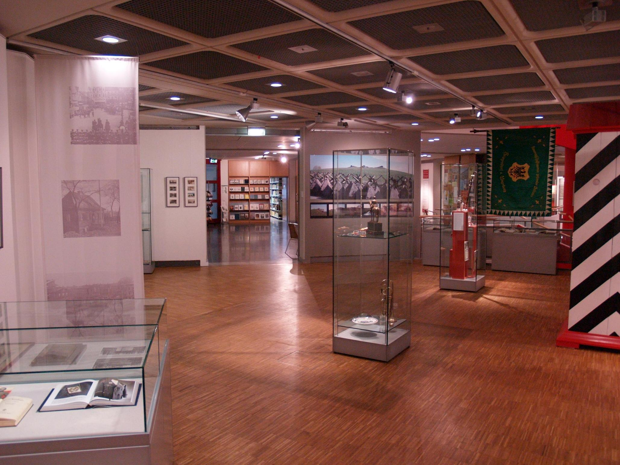 Temporary exhibition